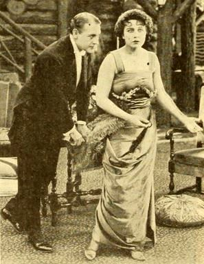 Still from the American drama film Other Men's Wives (1919) with Holmes Herbert and Dorothy Dalton, on page 1806 of the June 21, 1919 Moving Picture World.